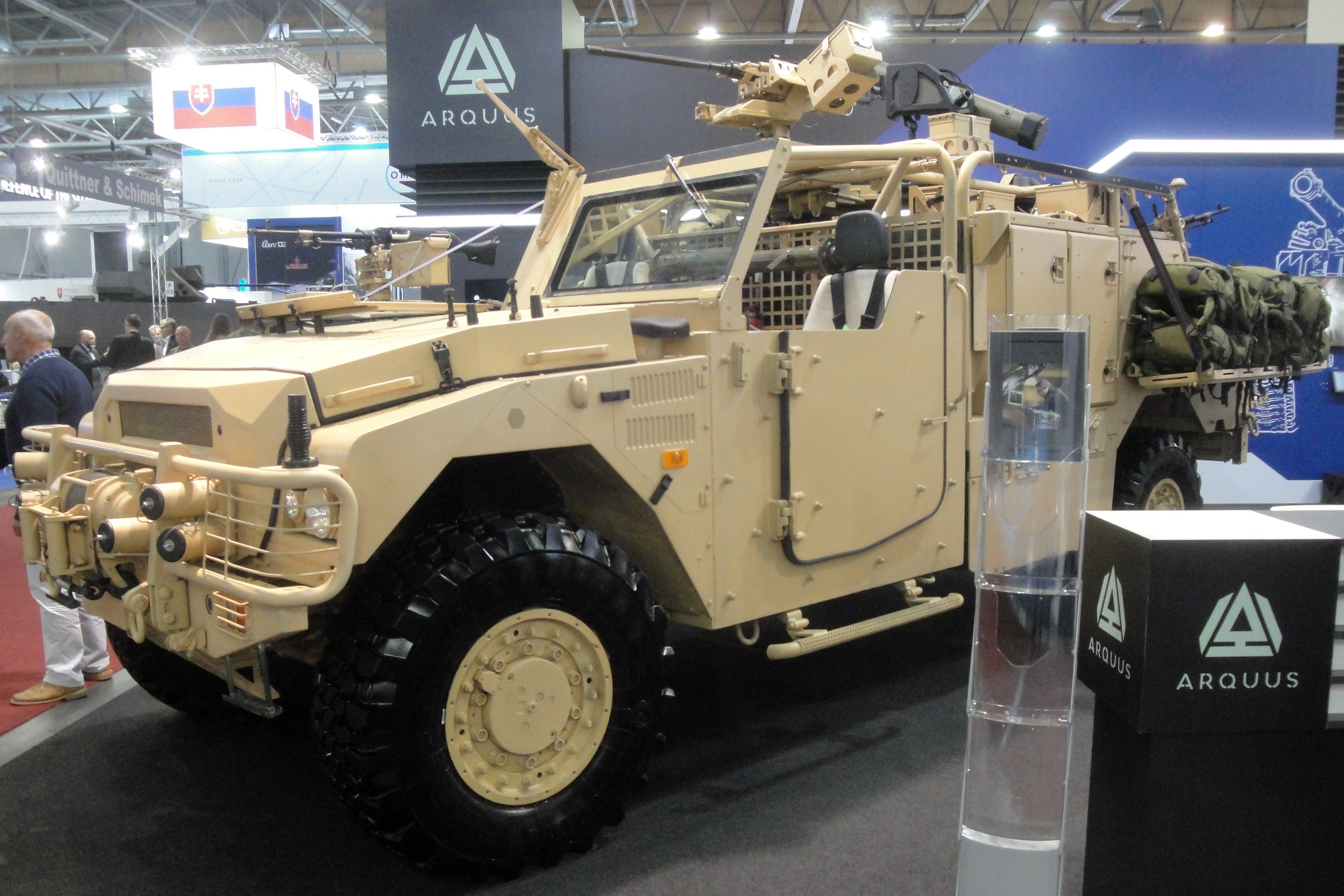 Arquus Sabre, IDET/PYROS/ISET 2019, Brno